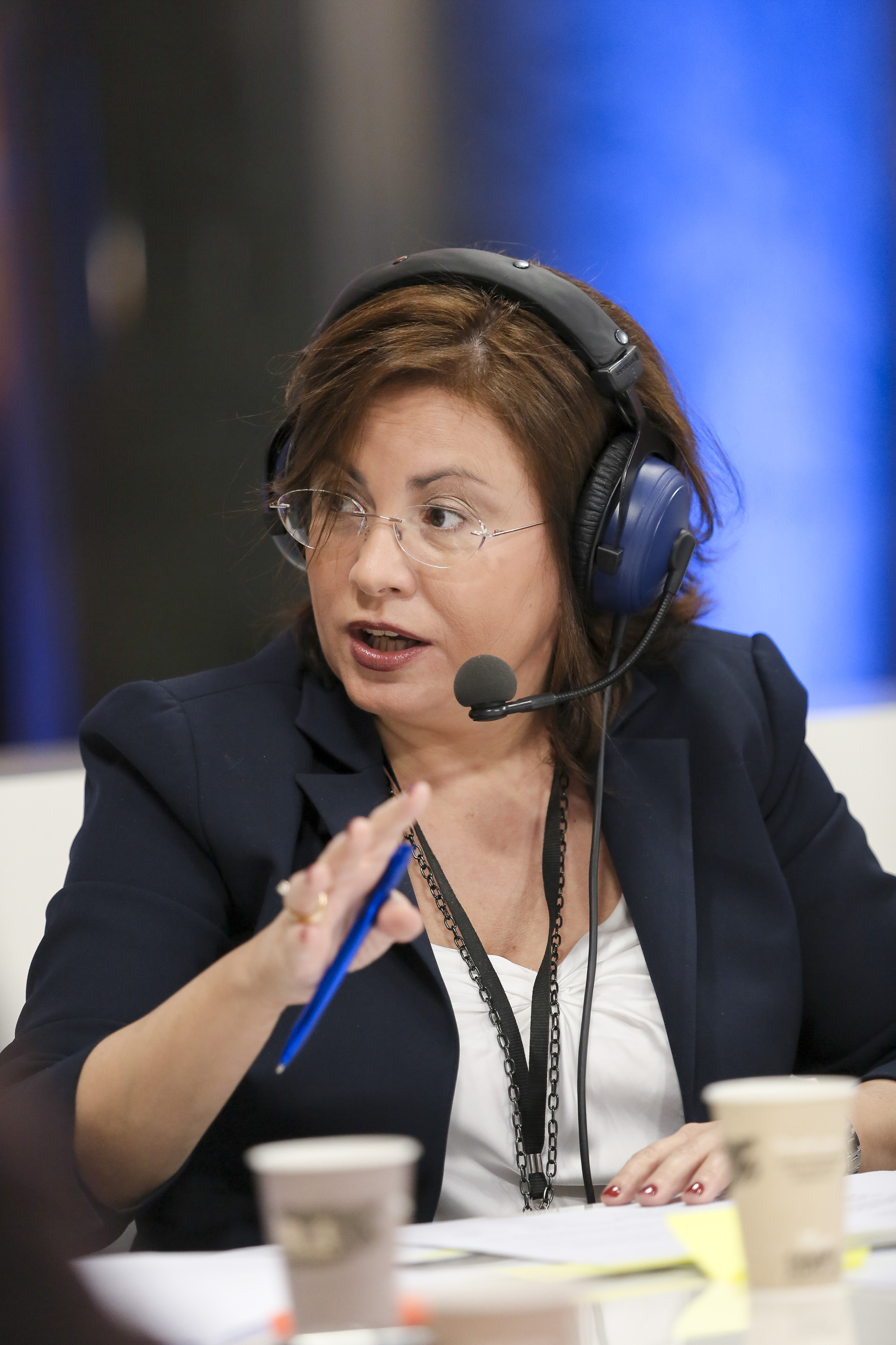 Euranet Plus, the leading radio network for EU news, hosted a Citizens’ Corner live debate on fighting corruption in the EU at the European Parliament in Brussels on December 2, 2014. The debate was jointly produced by Euranet Plus and Skaï Radio, Greece, member of the Euranet Plus network, and was moderated by journalist Stavros Samouilidis from Skaï Radio (in Greek) and Brian Maguire from the Euranet Plus News Agency in Brussels (in English). The debate also featured students from the Euranet Plus campus radio network. The debate was broadcast live at the top of this web page. You are invited to comment on the debate on our Facebook page event page or on Twitter using the hash tag #CitizensCorner. Part 1 | Greek | 12h30 – 13h15 CET | moderator Stavros Samouilidis | guests: - Maria SPYRAKI, MEP, Greece, Group of the European People’s Party - Eva KAILI, MEP, Greece, Group of the Progressive Alliance of Socialists and Democrats - Georgios KATROUGKALOS, MEP, Greece, Confederal Group of the European United Left – Nordic Green Left - Miltiadis KYRKOS, MEP, Greece, Group of the ProgressiveAlliance of Socialists and Democrats - George DASSIS, President of the Workers’ Group of the European Economic and Social Committee (EESC) Get more details, soundbites and the video recording of the debate at